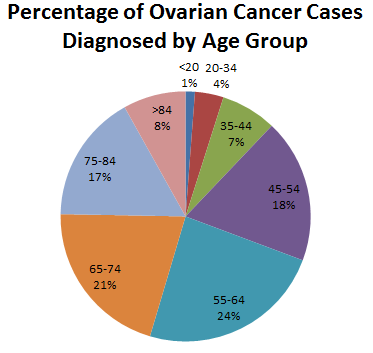 Ovarian cancer cases diagnosed by age group. From SEER